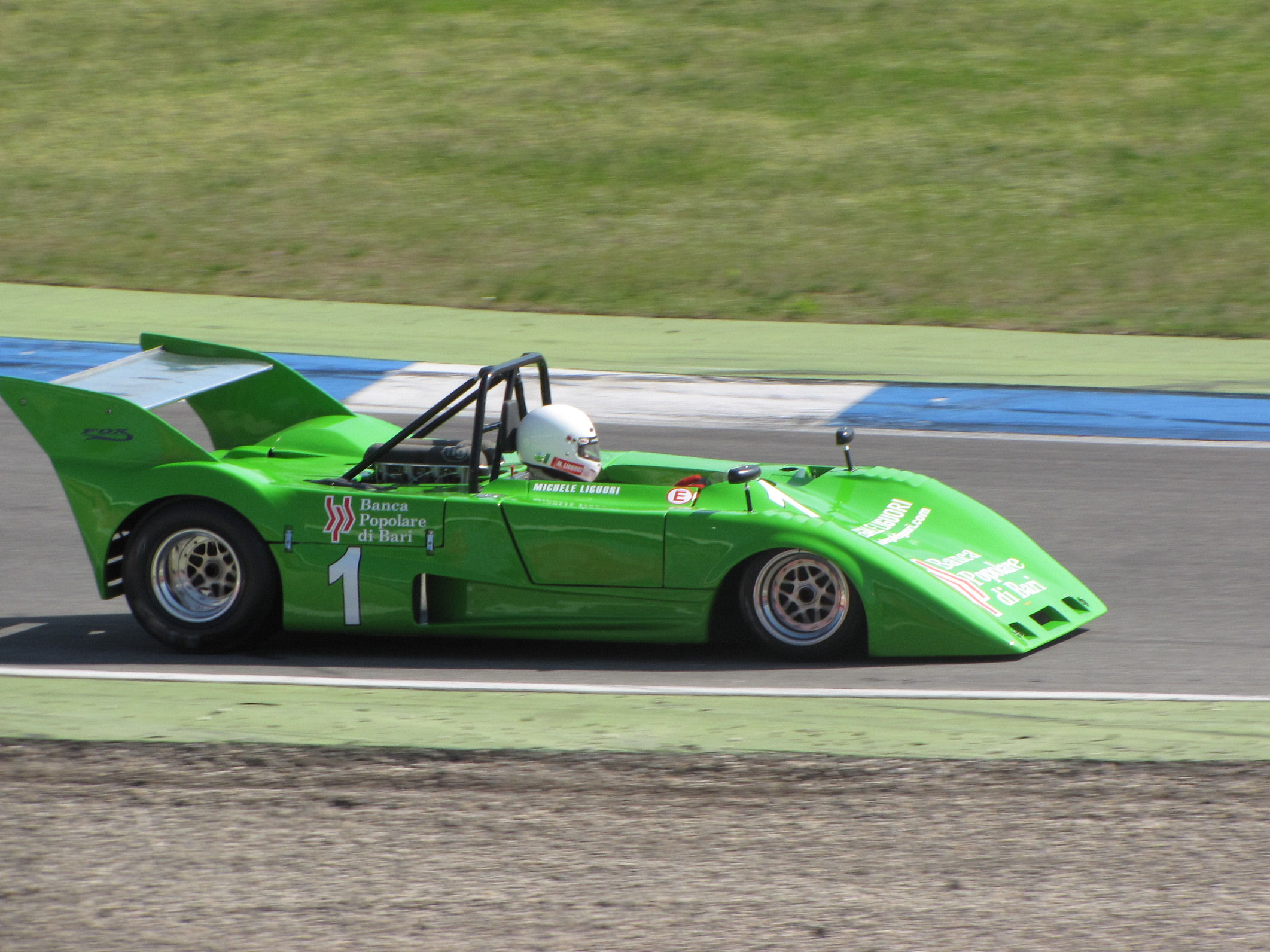 Lola T292 of Michele Liguori competing at Orwell SuperSports Cup in Hockenheim 2010